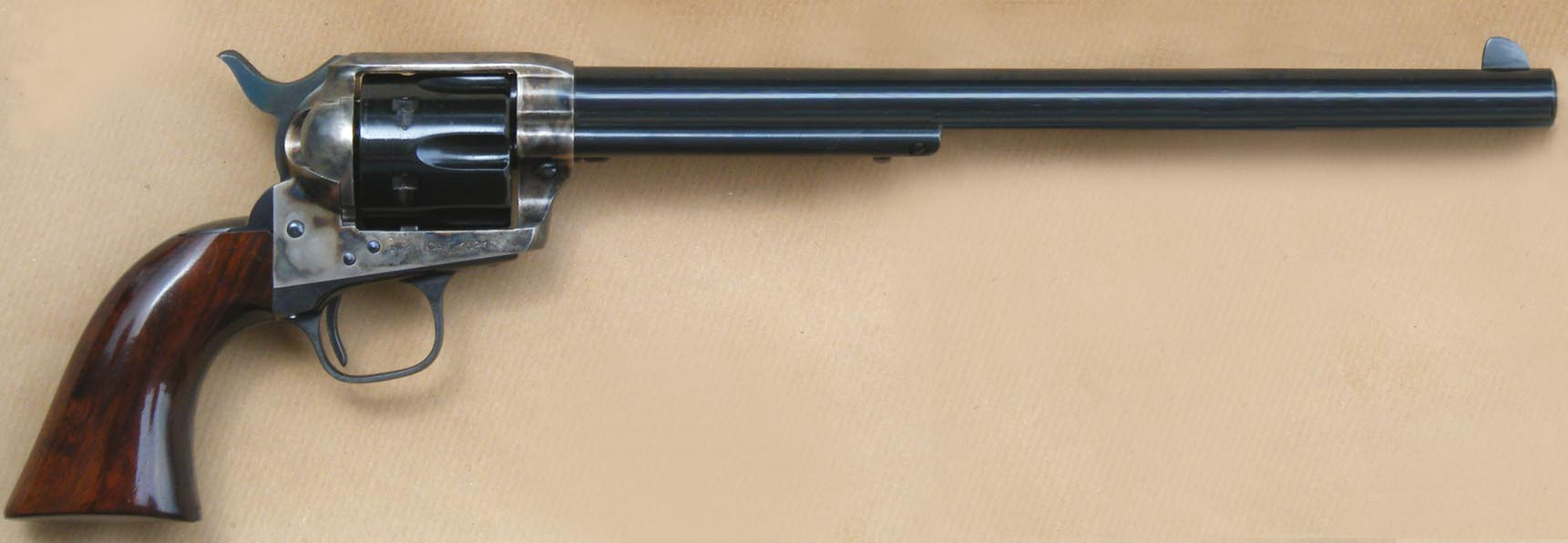 Colt SAA Buntline special (Uberti made)